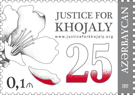 Justice for Khojaly. N 1289 - 10 qapik – The stamps are devoted to the 25th anniversary of the Khojaly tragedy where hundreds of woman, old men and child have been killed by Armenian terrorists.